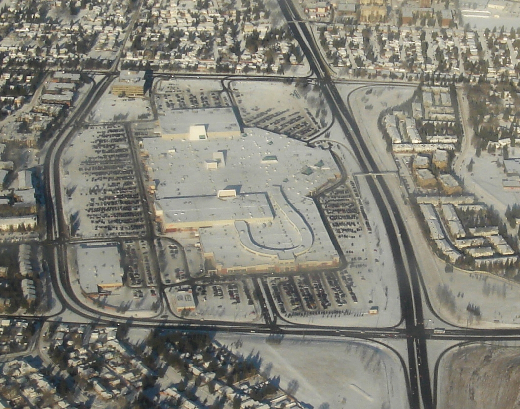 Aerial view of Market Mall, Calgary, Alberta, Canada